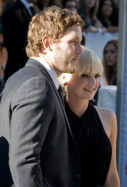 At the premiere of "Moneyball", directed by Bennett Miller, during the Toronto International Film Festival, 2011